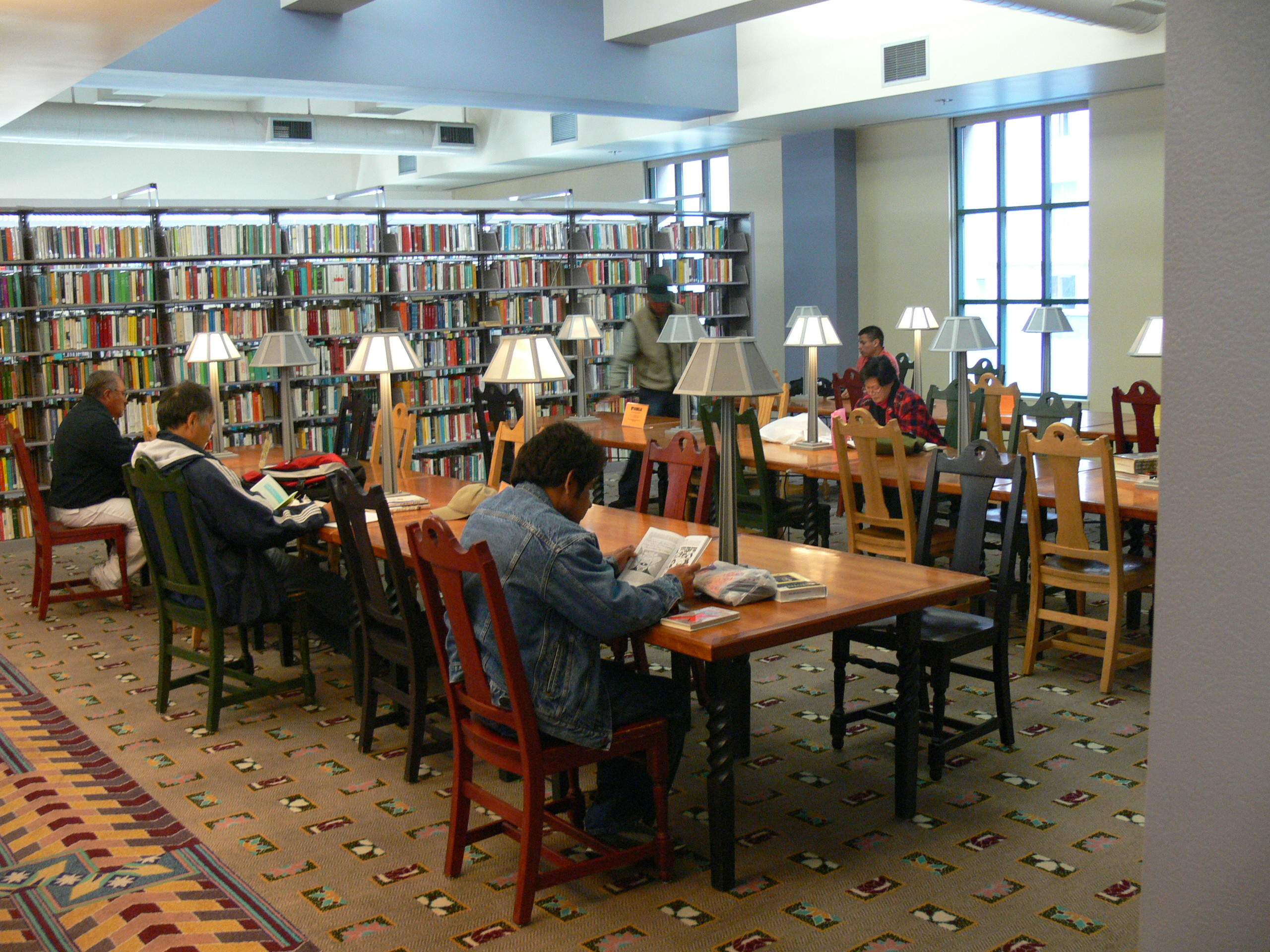 Los Angeles Public Library. Readers Room for Foreign Language Literature.